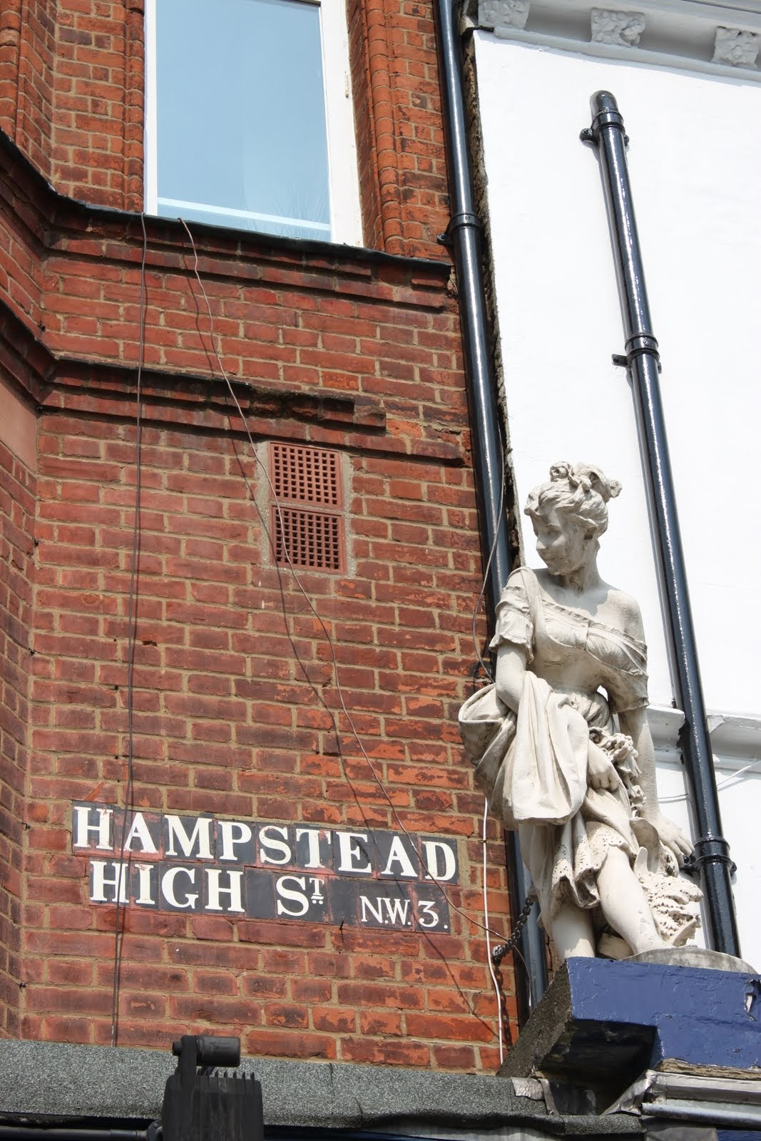 Hampstead High Street sign